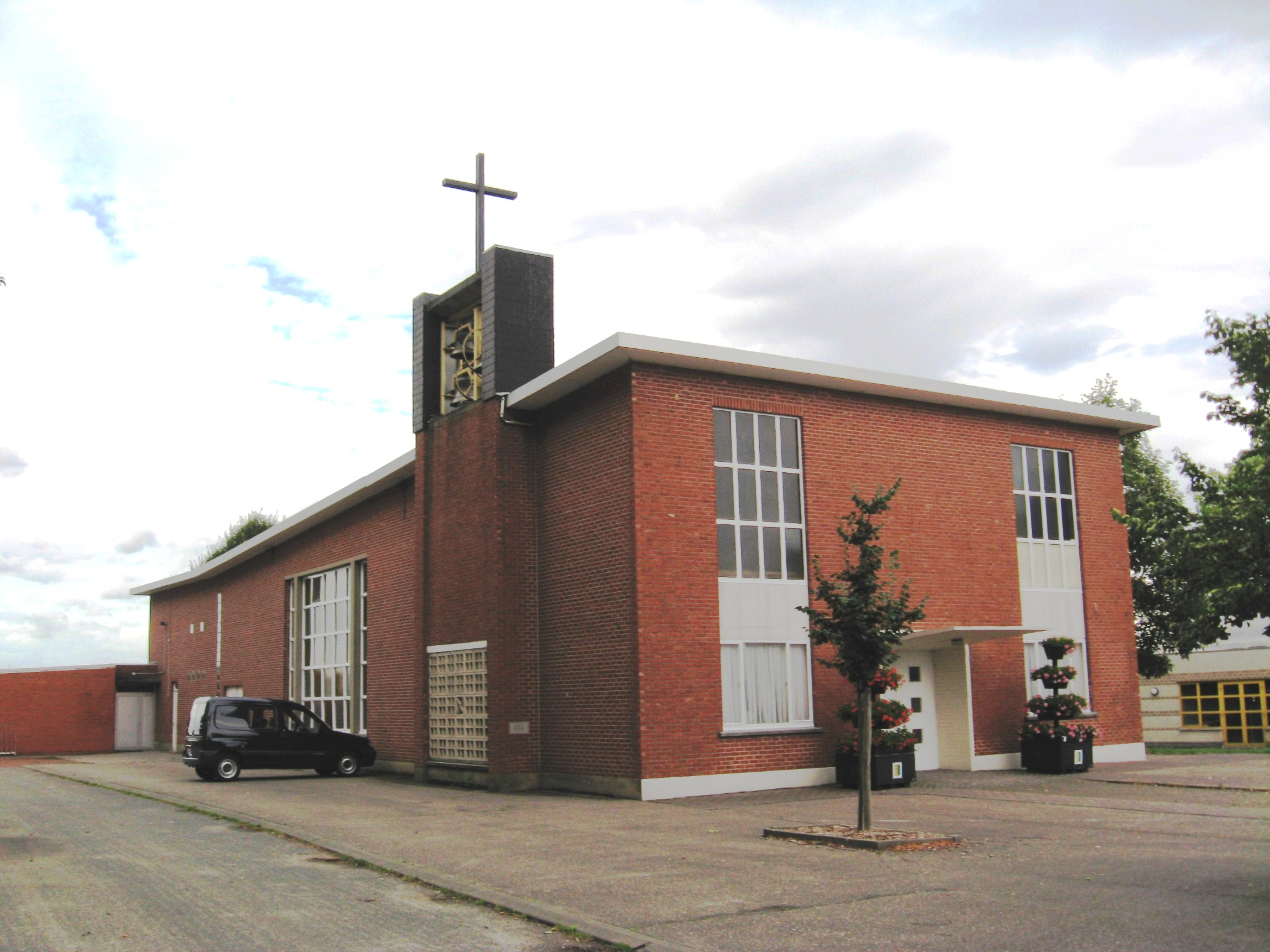 Church of the Sacred Heart in Bilzen (Merem), Limburg, Belgium